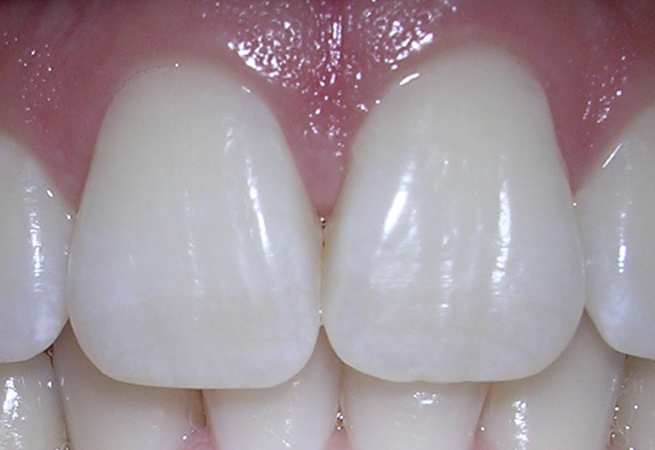 Photo of a permanent maxillary central incisors (#8 and 9 by the universal system of notation) taken from the facial view.